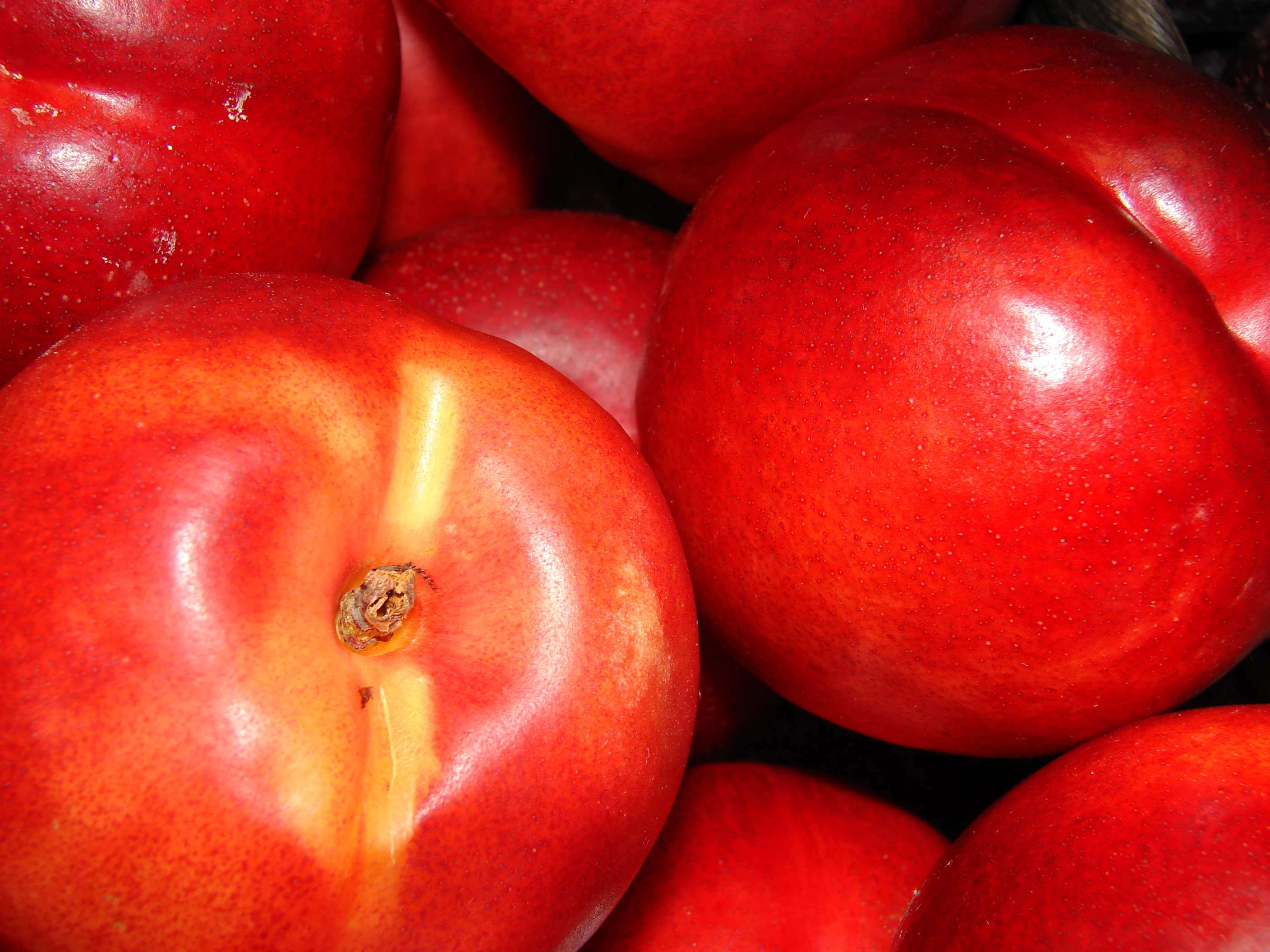 Prunus persica var. nucipersica (fruit). Location: Maui, Foodland Pukalani